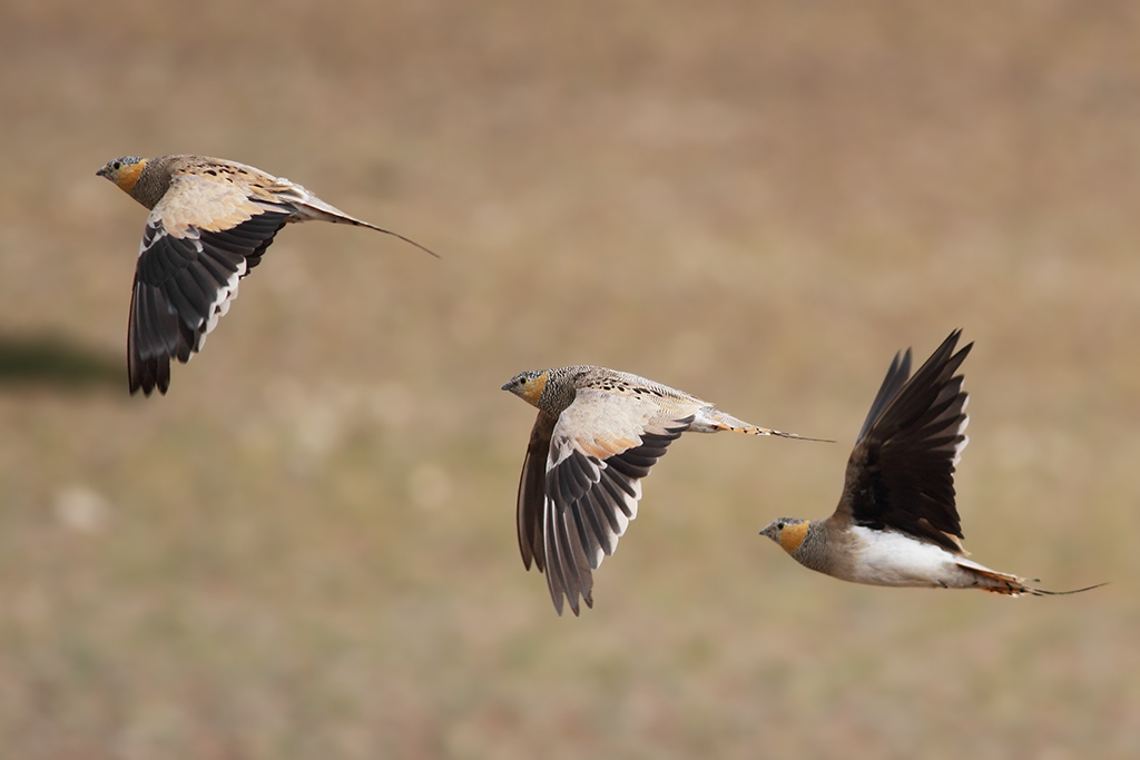 Birds in flight